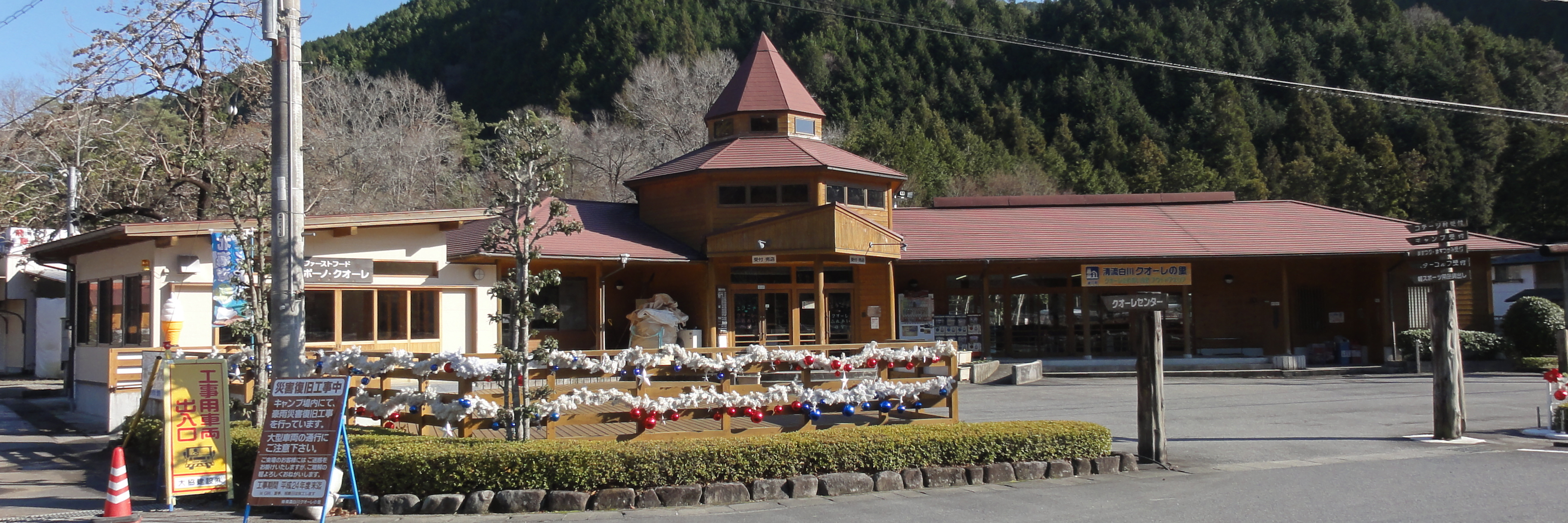 Road to station Seiryu-Shiraka Cuore no sato,Gifu prefecture,Japan